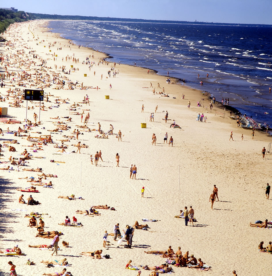 Blue flag beach Jūrmala